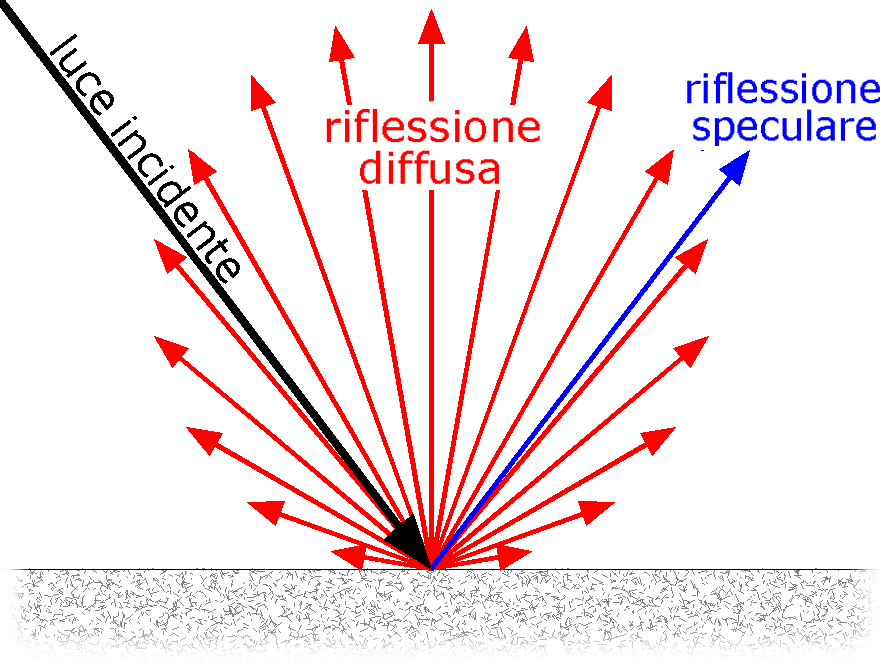 Diffuse and specular reflection from a glossy surface